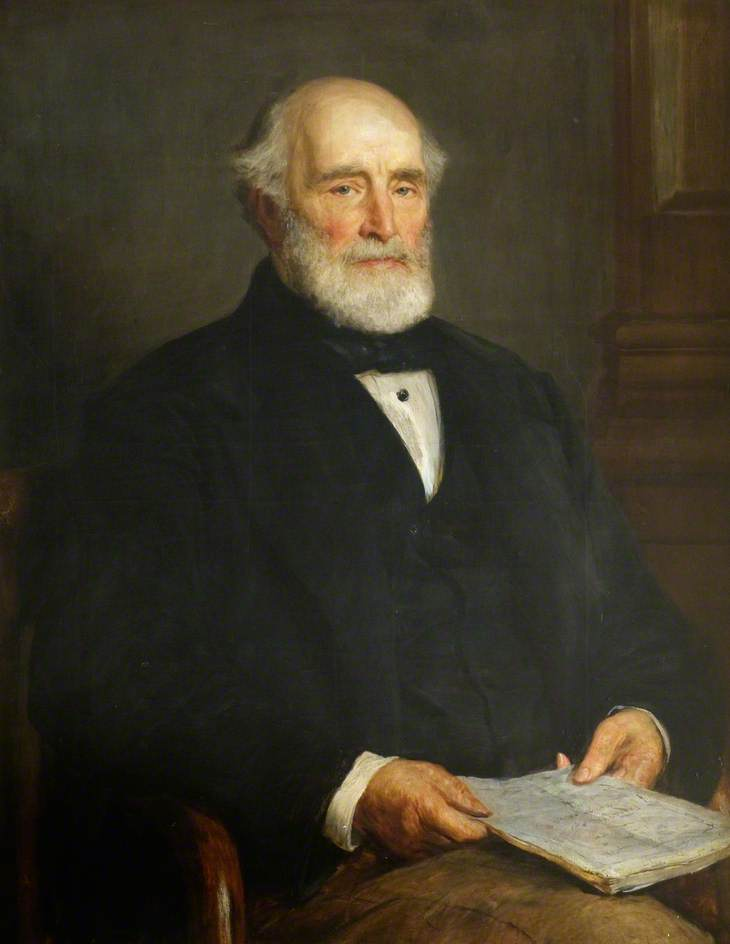 Portrait of William Harris by John Petrie in 1880